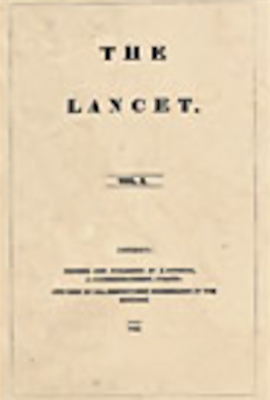 Cover of the first issue of The Lancet.